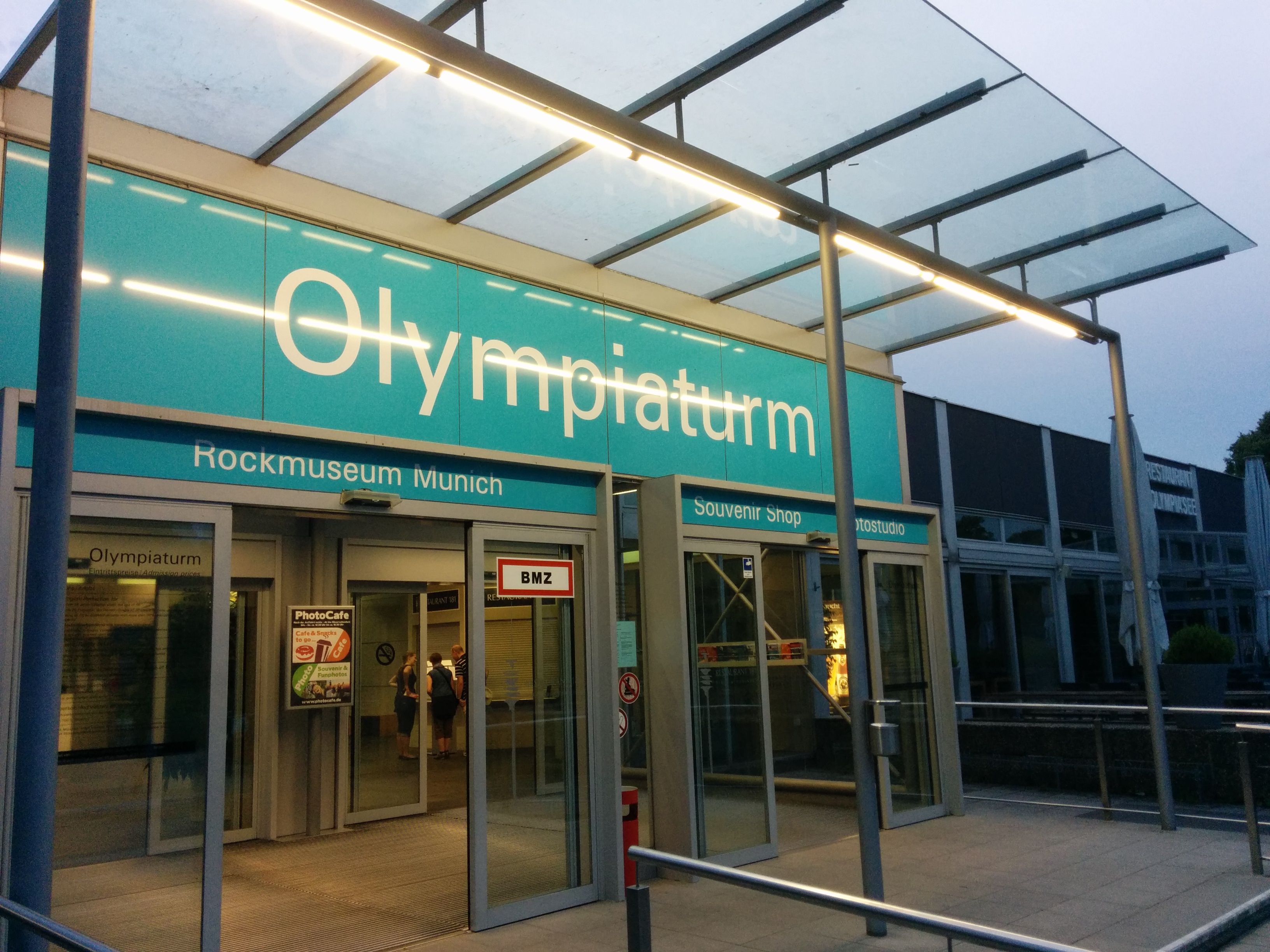 entrace Olympiaturm, Munich